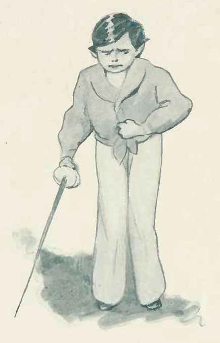 John Darling